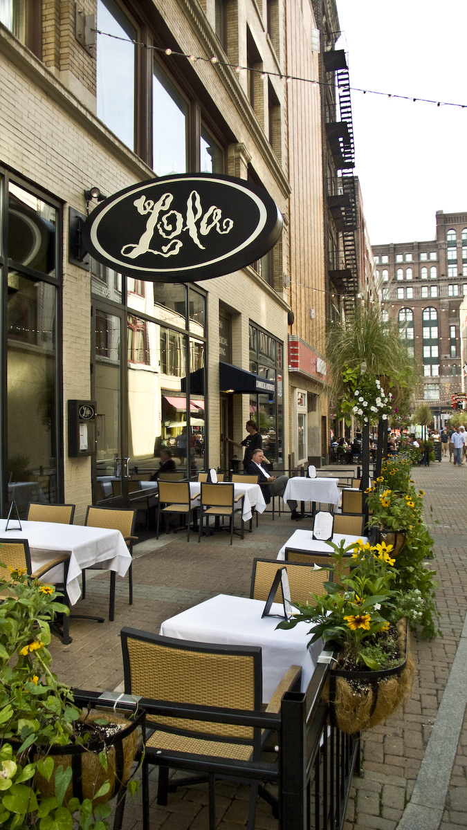 Michael Symon's Lola on East 4th Street in downtown Cleveland, Ohio. The Arcade is visible in the background.